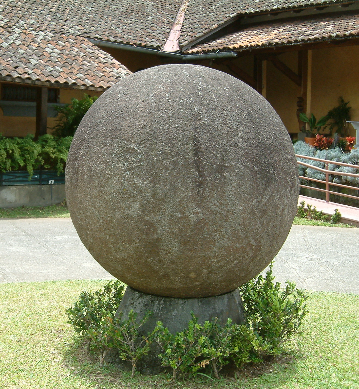 Photo of a stone sphere of Costa Rica by Connor Lee. Taken in March 2004 and released under terms of the GNU FDL. This sphere is in the rooftop courtyard of the national museum or Museo Nacional in San Jose, Costa Rica. It is part of the extensive collection of pre-Columbian artifacts at the museum. The Museo Nacional is housed in the Fuerte Bellevista, translated into